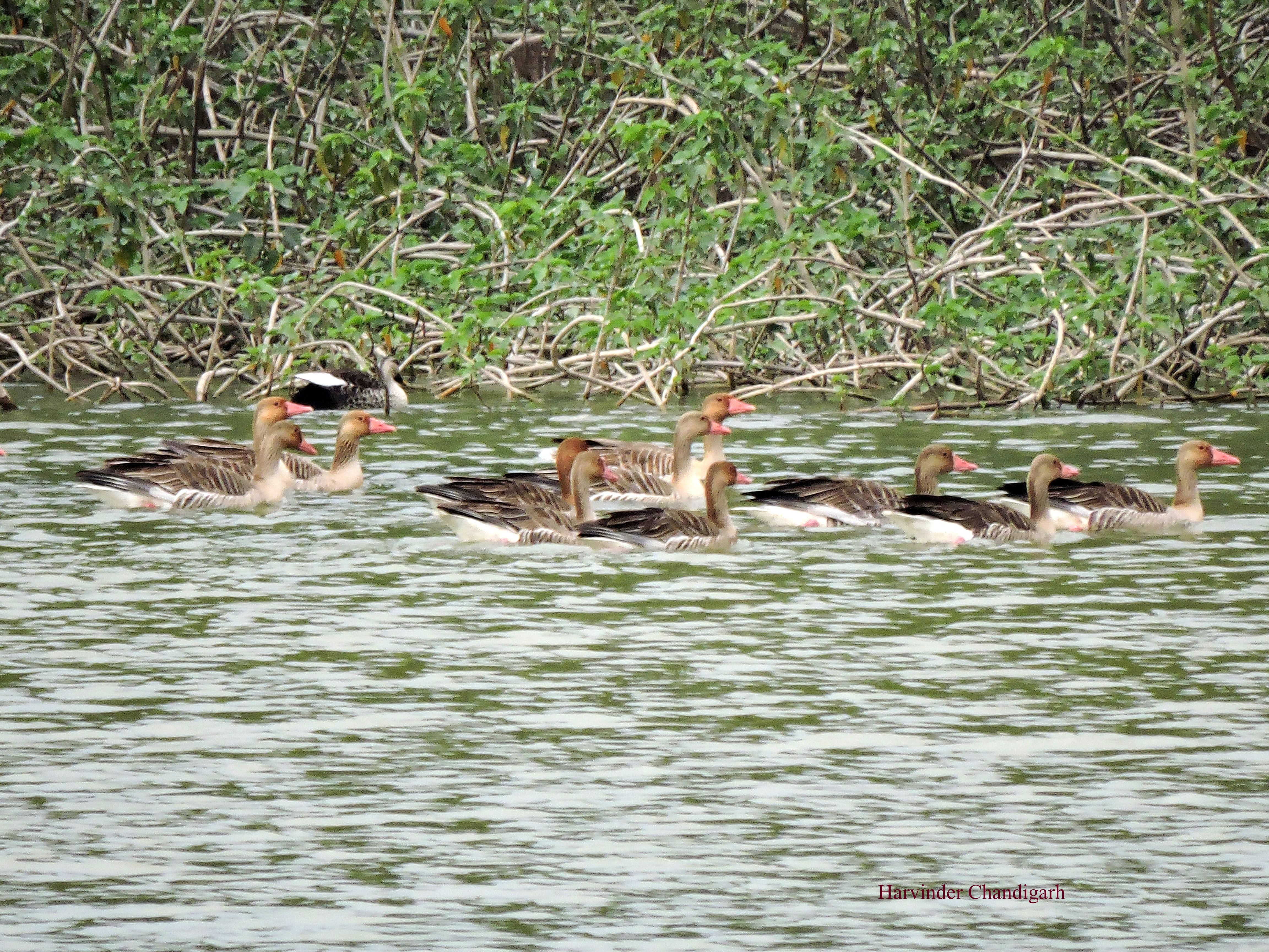 Greylag goose,Sukhna Lake, Chandigarh,India